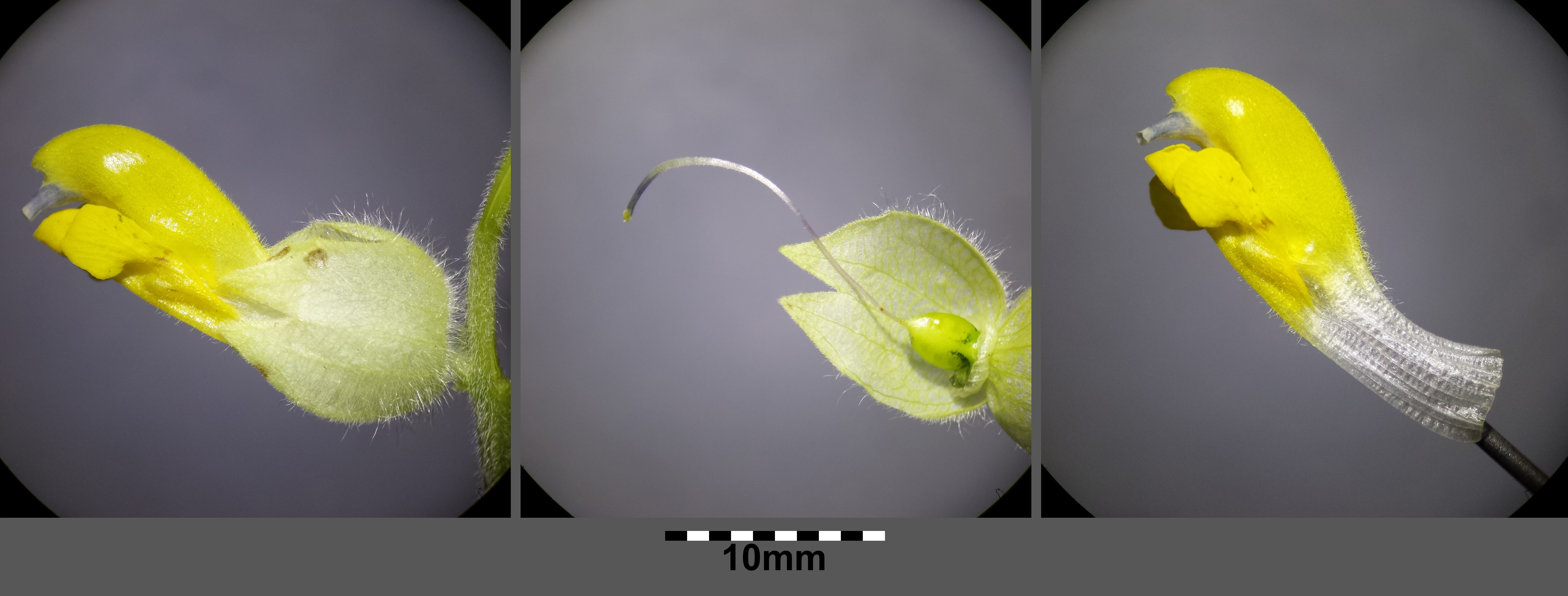 Flower, on the right corolla unmounted Taxonym: Rhinanthus alectorolophus subsp. alectorolophus ss Fischer et al. EfÖLS 2008 ISBN 978-3-85474-187-9 Location: Steinberg near Niederhollabrunn, district Korneuburg, Lower Austria - ca. 375 m a.s.l. Habitat: semi-dry grassland